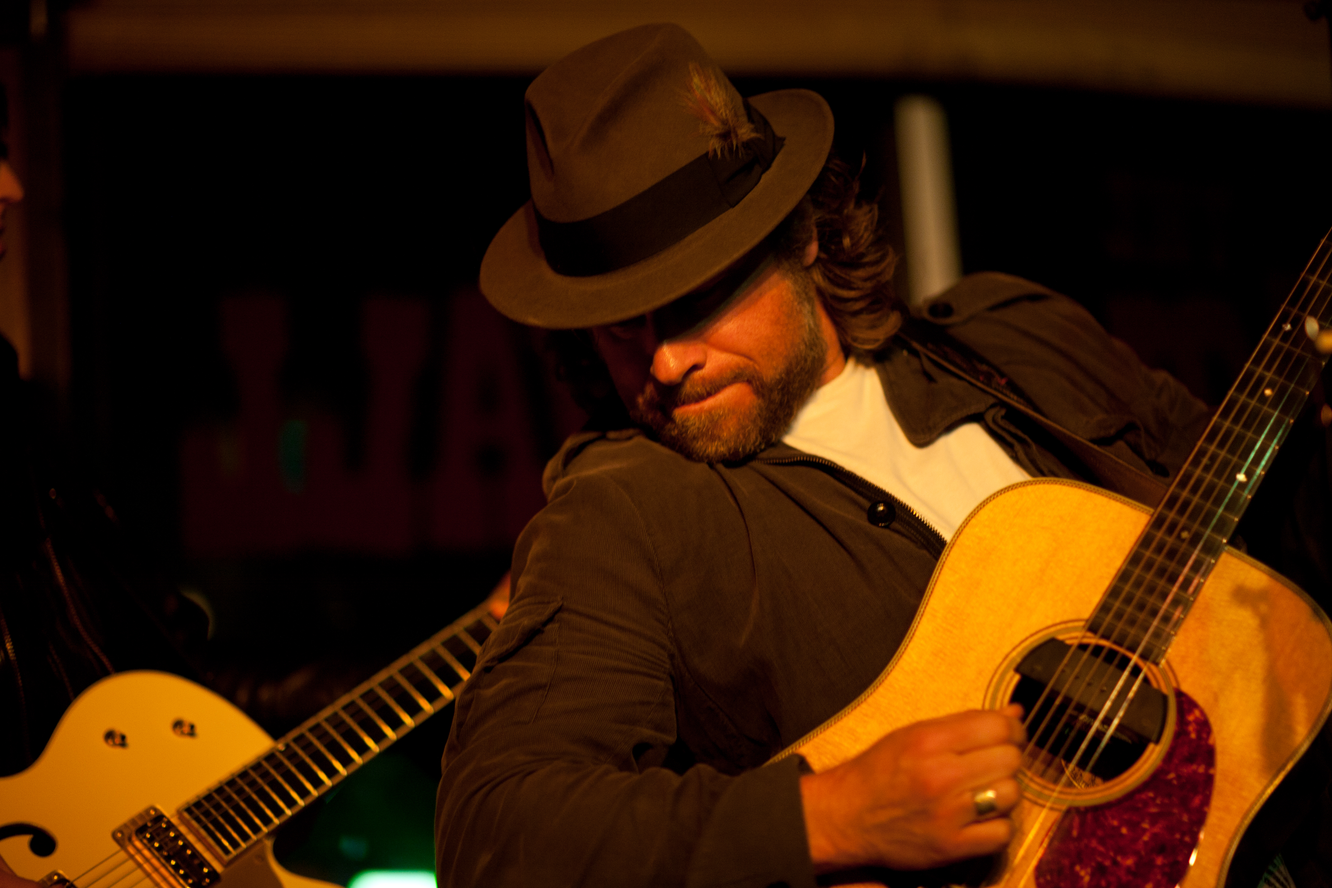 March 2010 @ The Drag in Austin, Texas